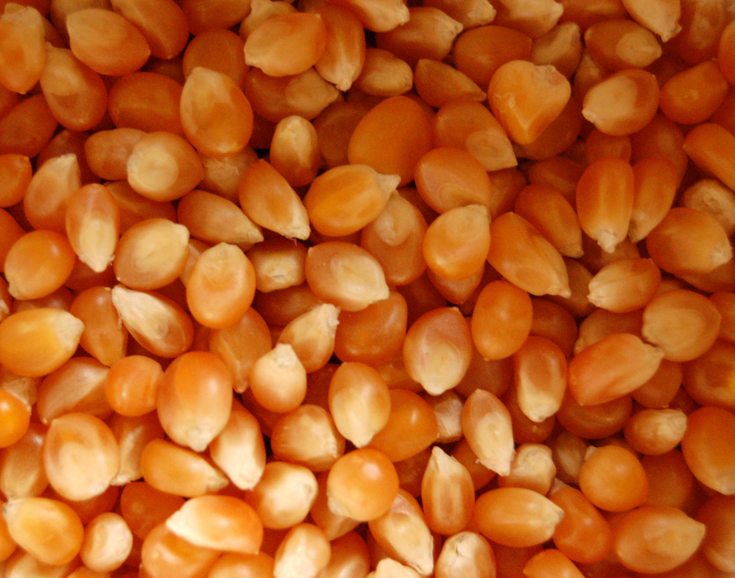 Kernes/grains of corn